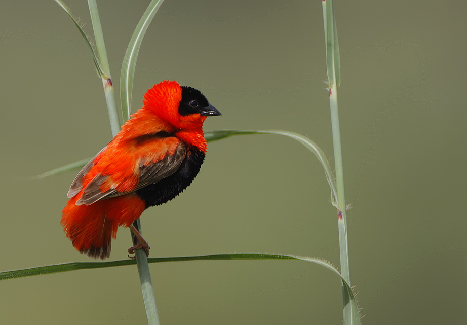 A male Northern Red Bishop in breeding plumage at Kotu Creek, Western Division, The Gambia.